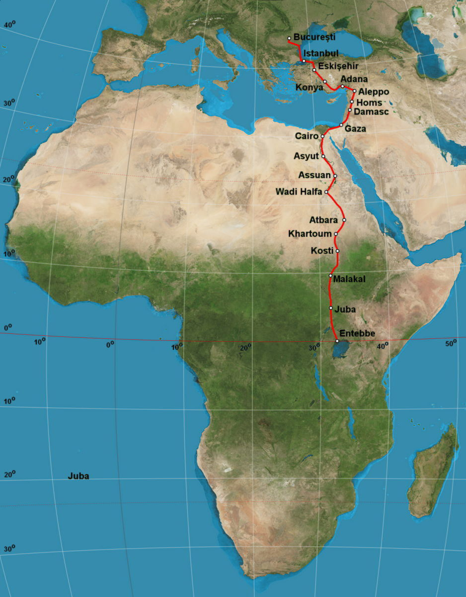 Route of romanian aviation raid in Africa, Entebbe, 1935